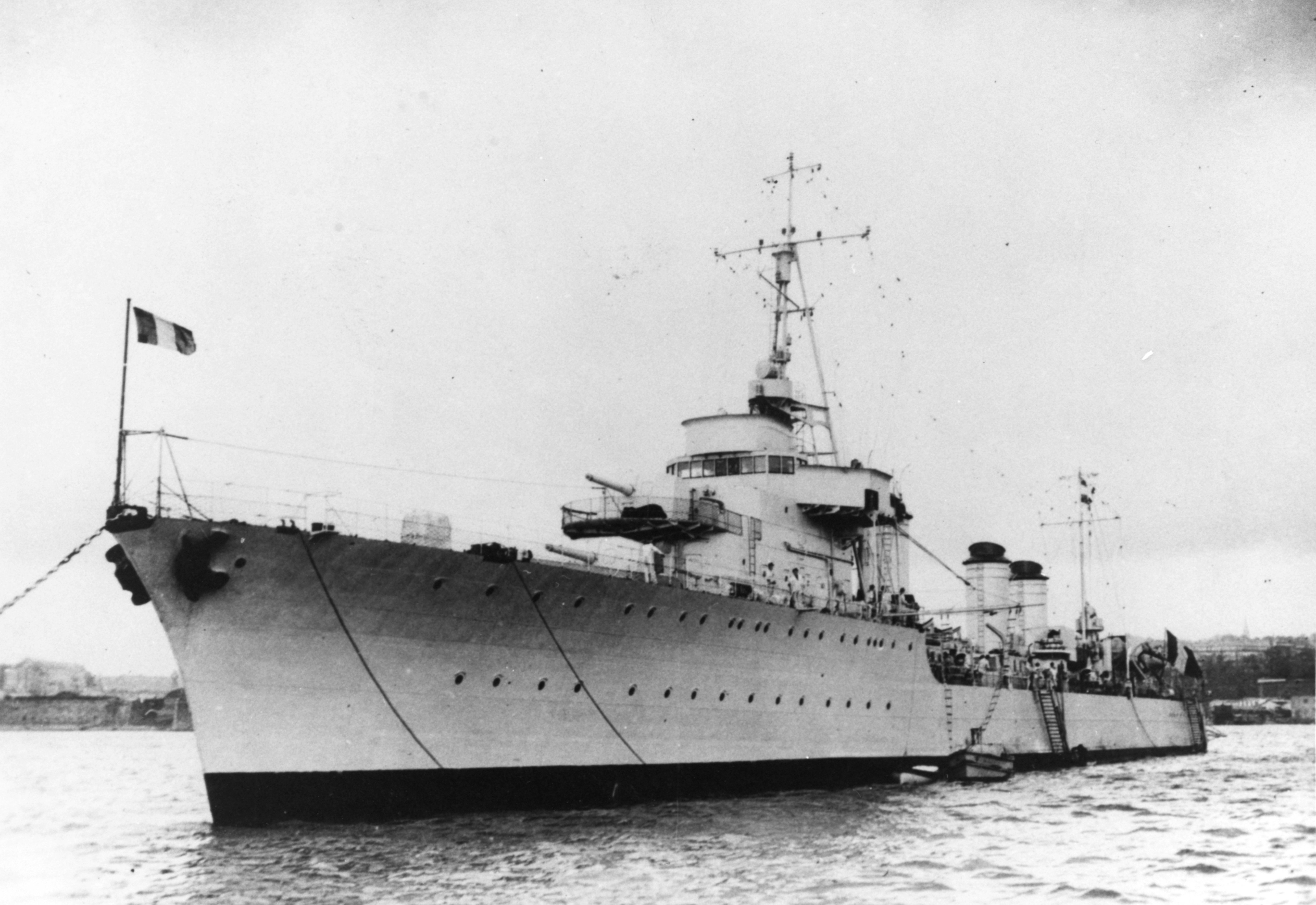 The French destroyer Bison during 1931 to 1934 when the ship had no distinctive identification number painted on the hull side forward.